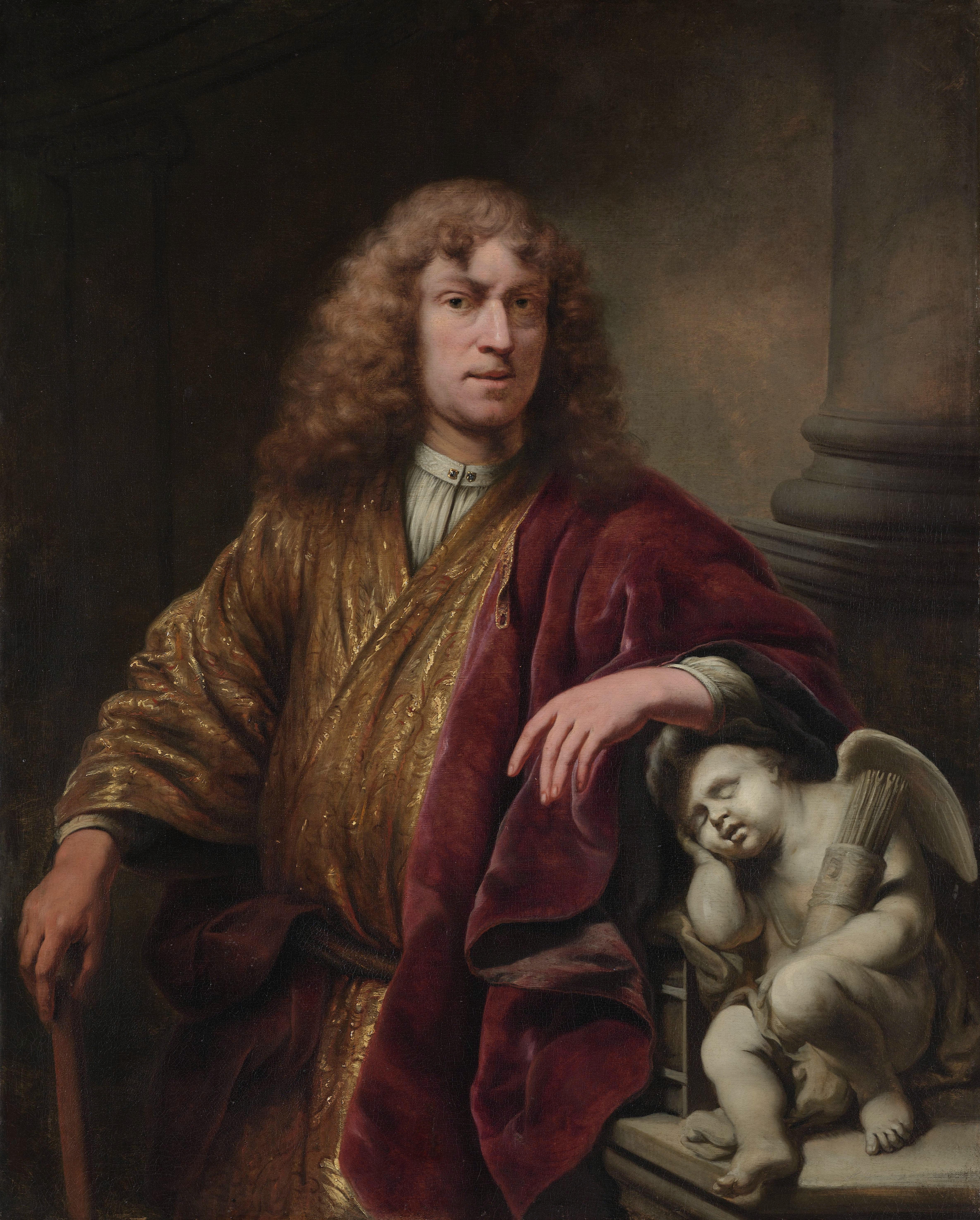 Self-portrait by Ferdinand Bol at knee-length, wearing an embroidered dressing gown. His left arm is resting on a statue of Cupid.